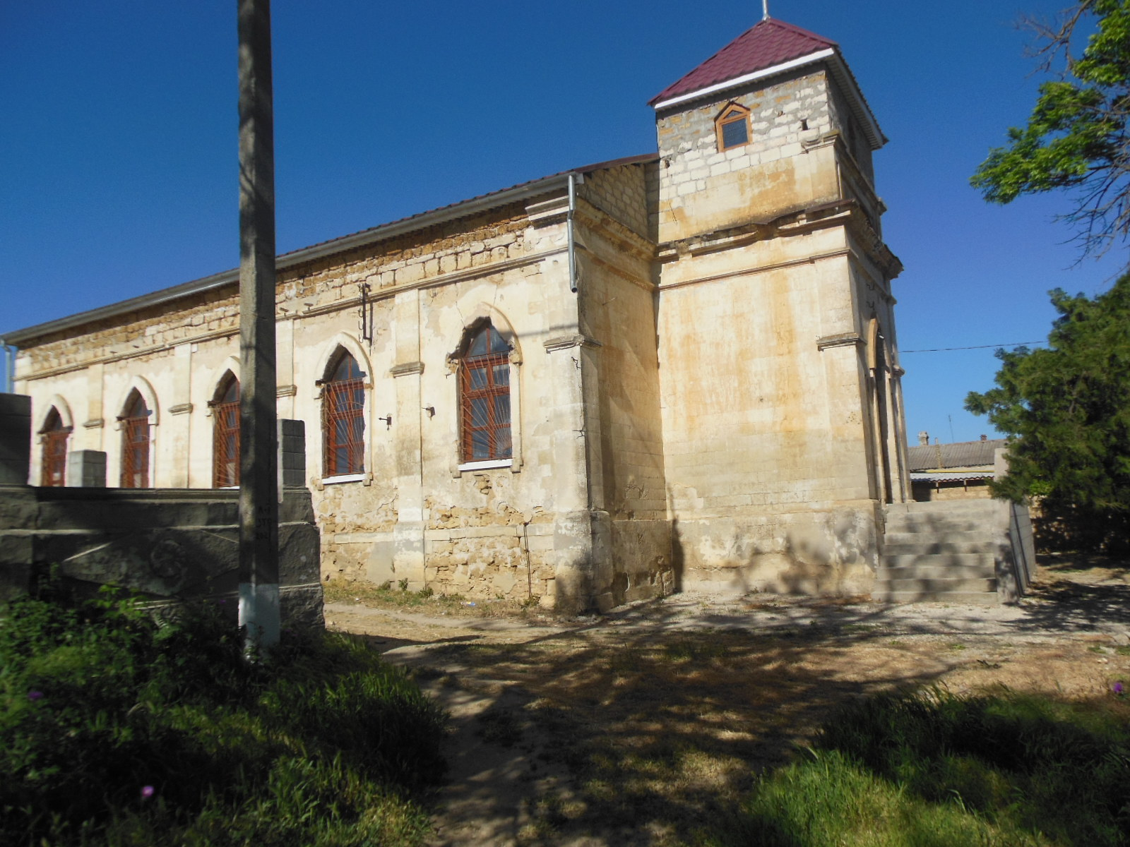 Current status of the Lutheran church. The village Kol'chugino.